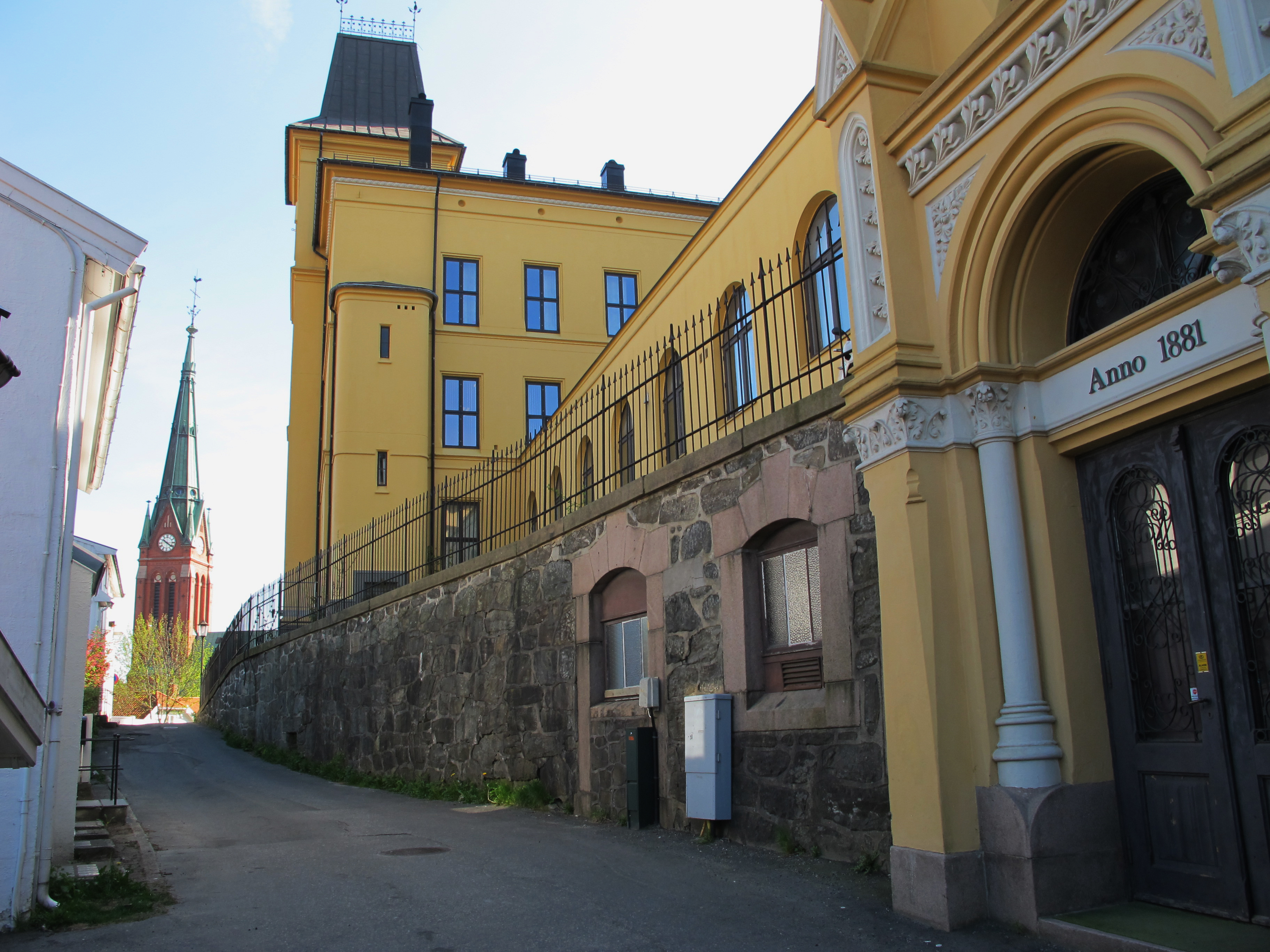 Arendal videregående skole